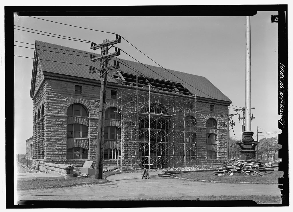 MAIN (EAST) ELEVATION - Edward D. Adams Station Power Plant, Niagara River & Buffalo Avenue, Niagara Falls, Niagara County, NY